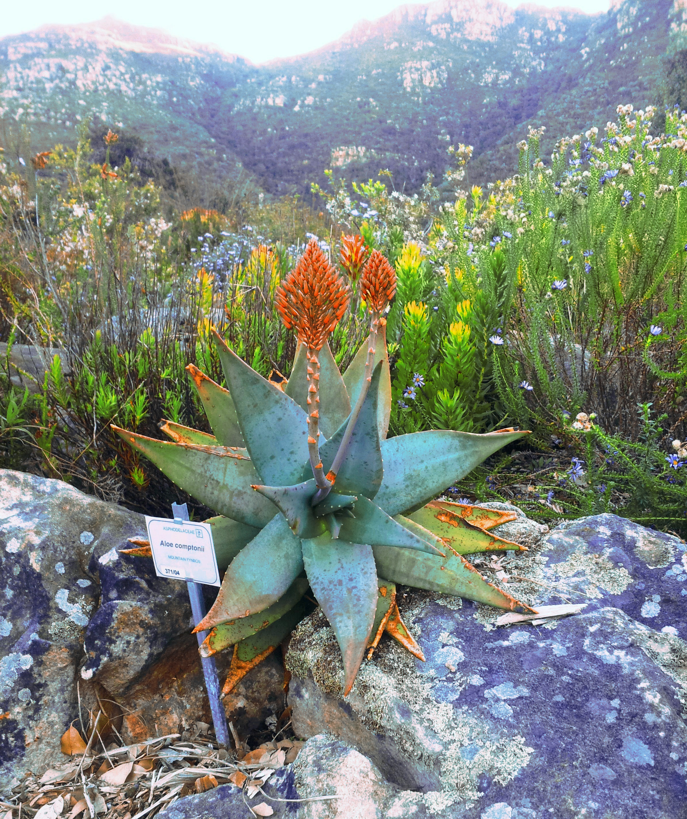 Aloe perfoliata- also known as Aloe comptonii - Cape Town